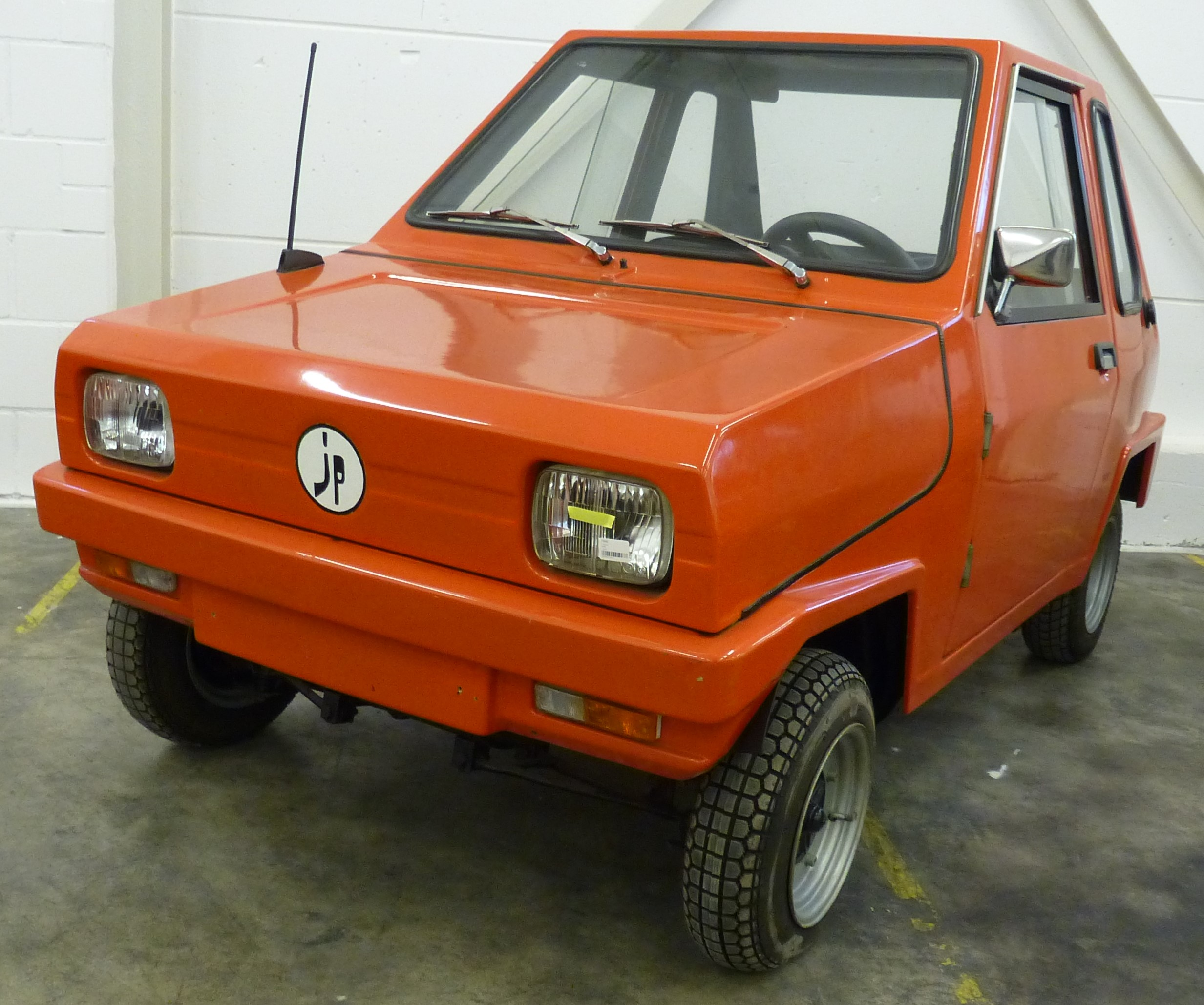 Fiam Johnny Panther